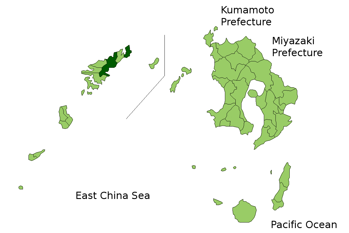 Location Map of Amami in Kagoshima Prefecture, Japan